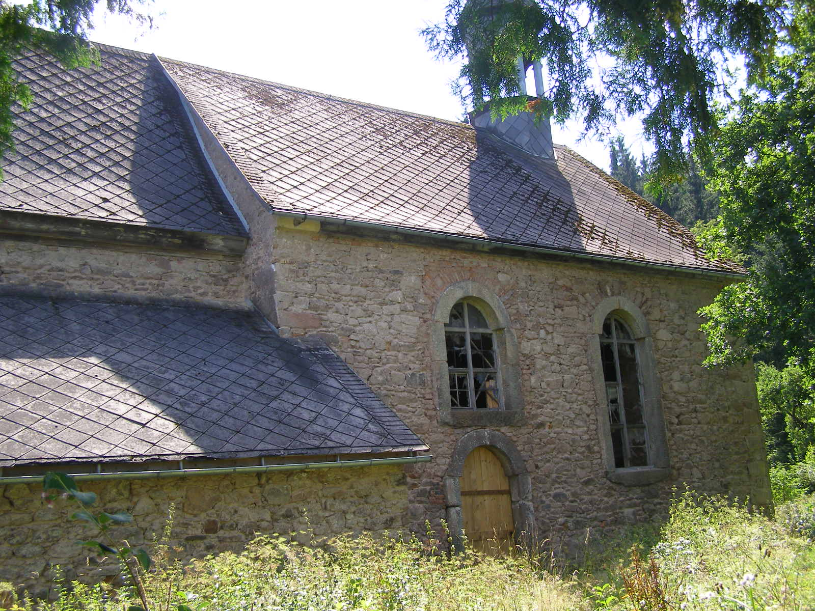 Church of St Michael in Okrzeszyn